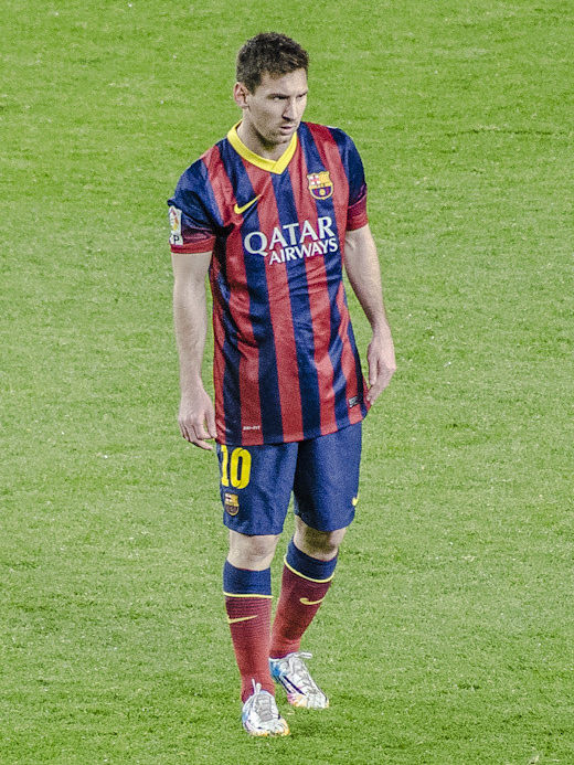 Leo Messi playing for FC Barcelona against Almeria on 2 March 2014